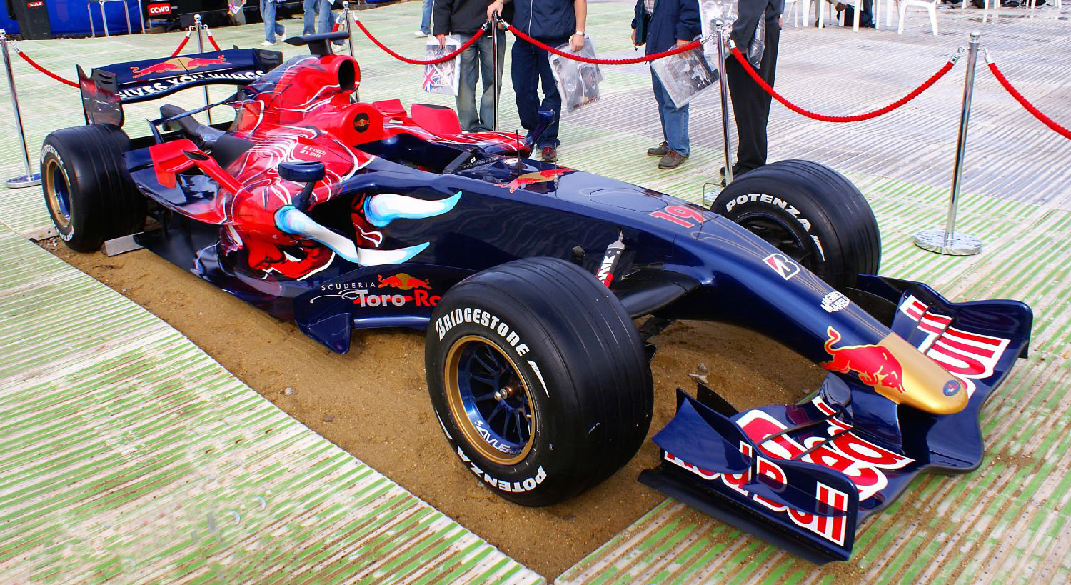 Scuderia Toro Rosso STR2 at the Red Bull Air Race 2007 London